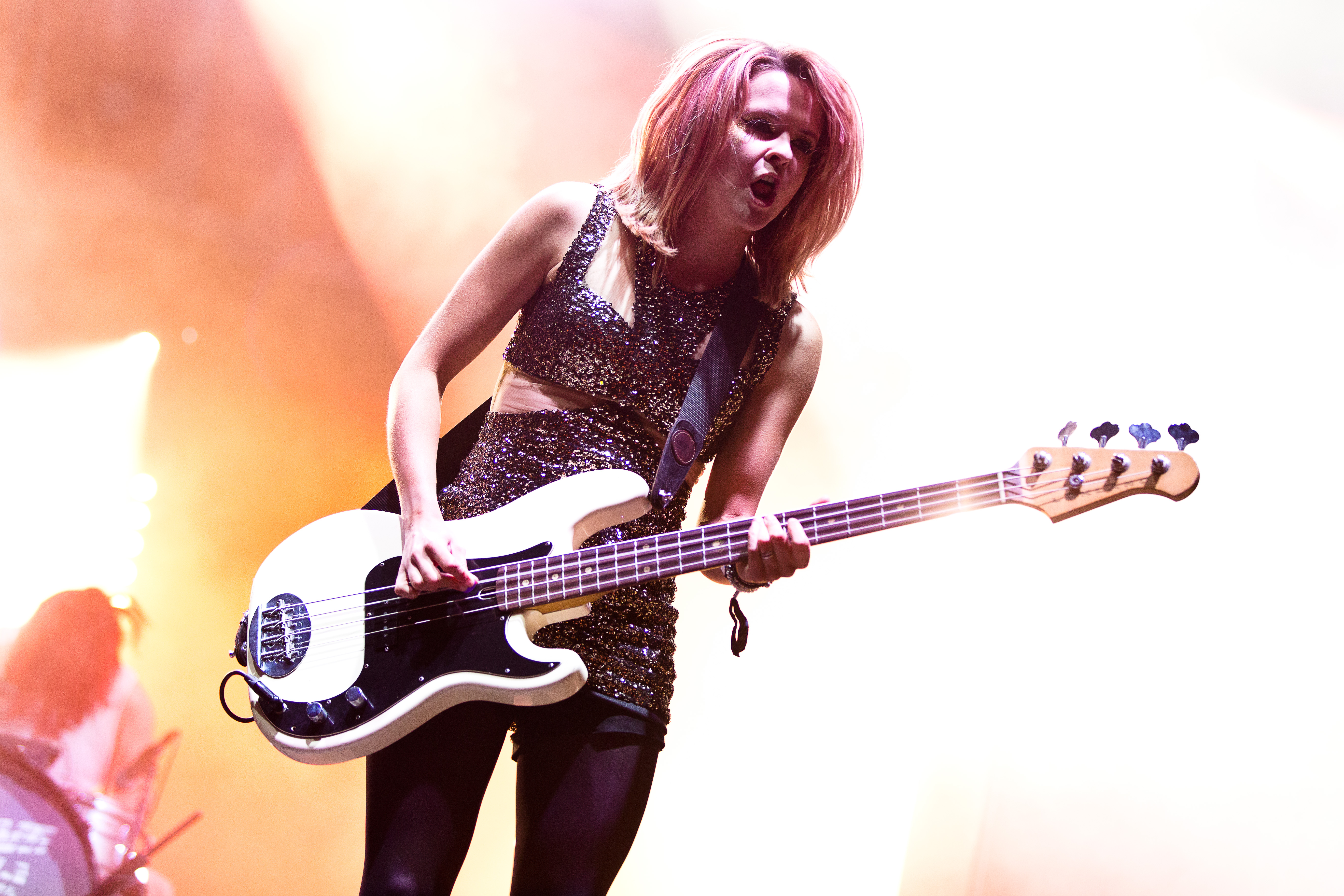 The British indie rock band The Subways at the "Rocken am Brocken" Open Air 2016 in Elend/Germany